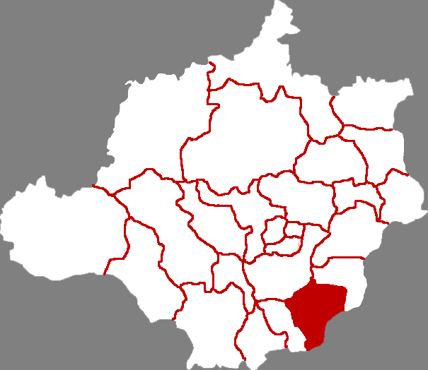 Location of Li county in Baoding City, China